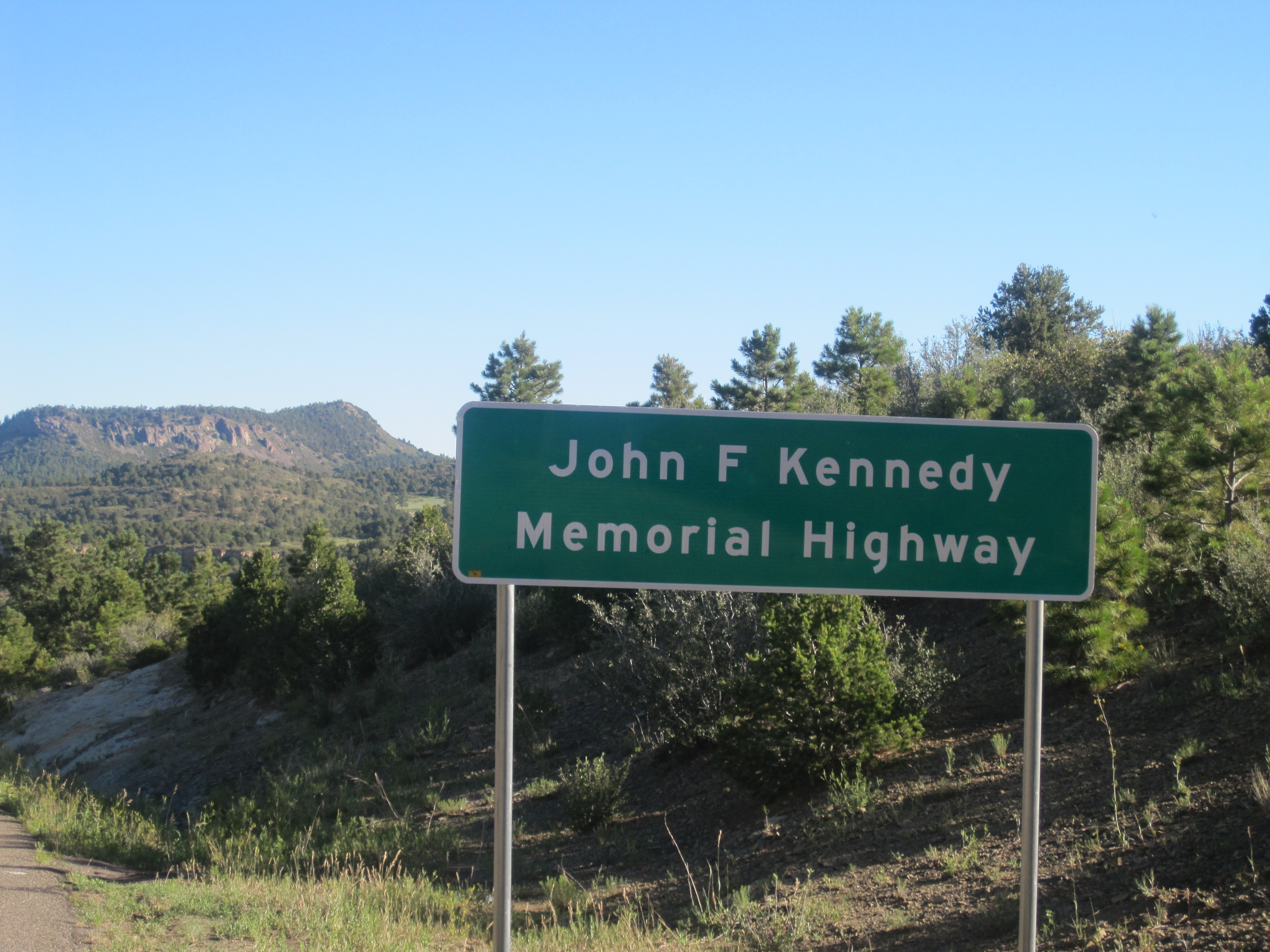 I took photo with Canon camera in southern Colorado.